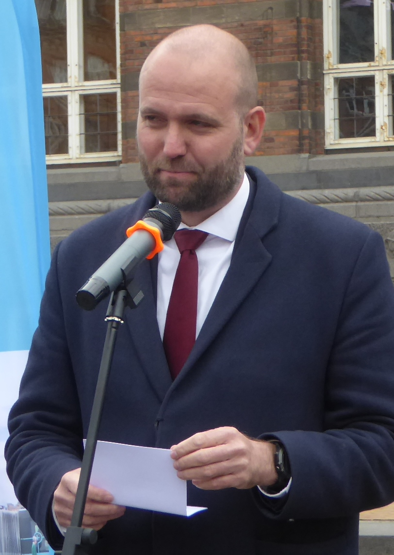 Official opening of Movia bus line 5C at Rådhuspladsen in Copenhagen, two days before the actual start of the line. Mayor of Herlev, Thomas Gyldal Petersen, speaking.